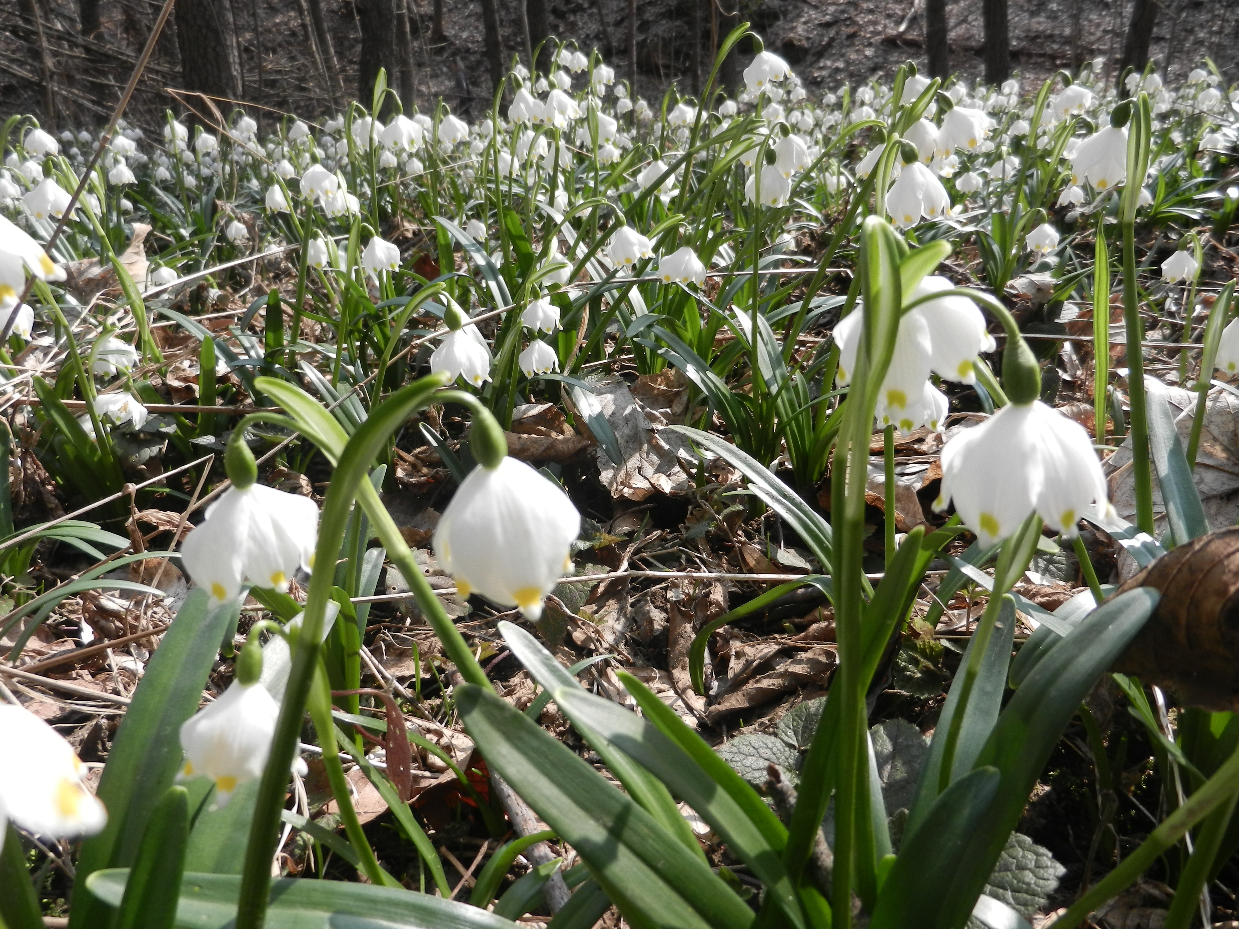 Leucojum vernum in nature reserve Údolí Chlébského potoka near Chlebské, Czech Republic